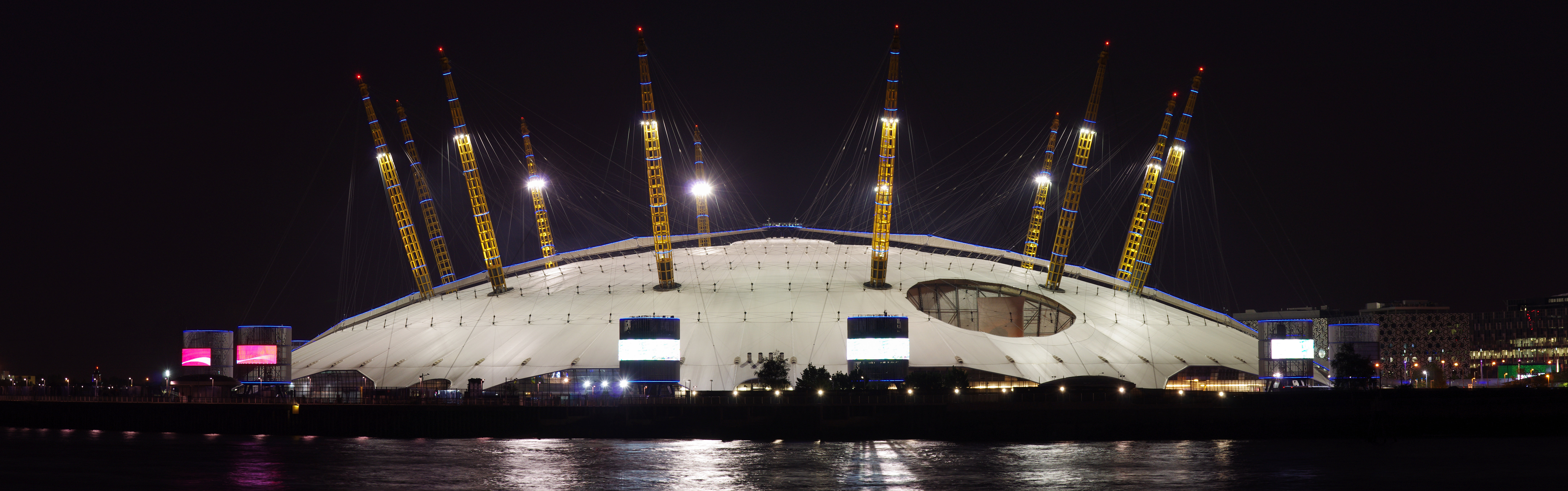 Panorama of the Millennium Dome at night, seen from across the Thames.